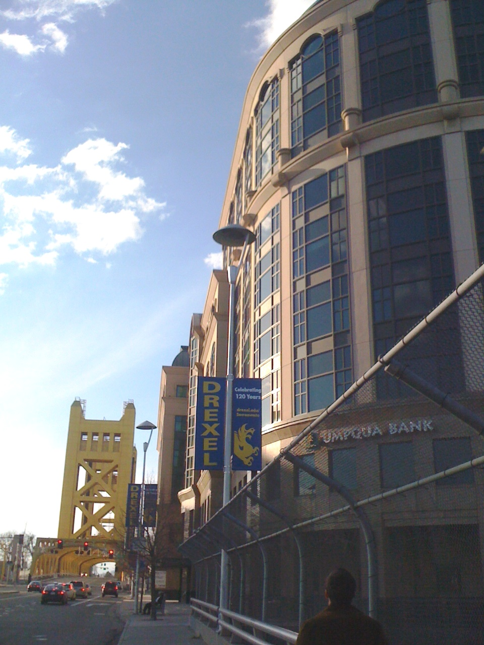 View of Drexel University Sacramento